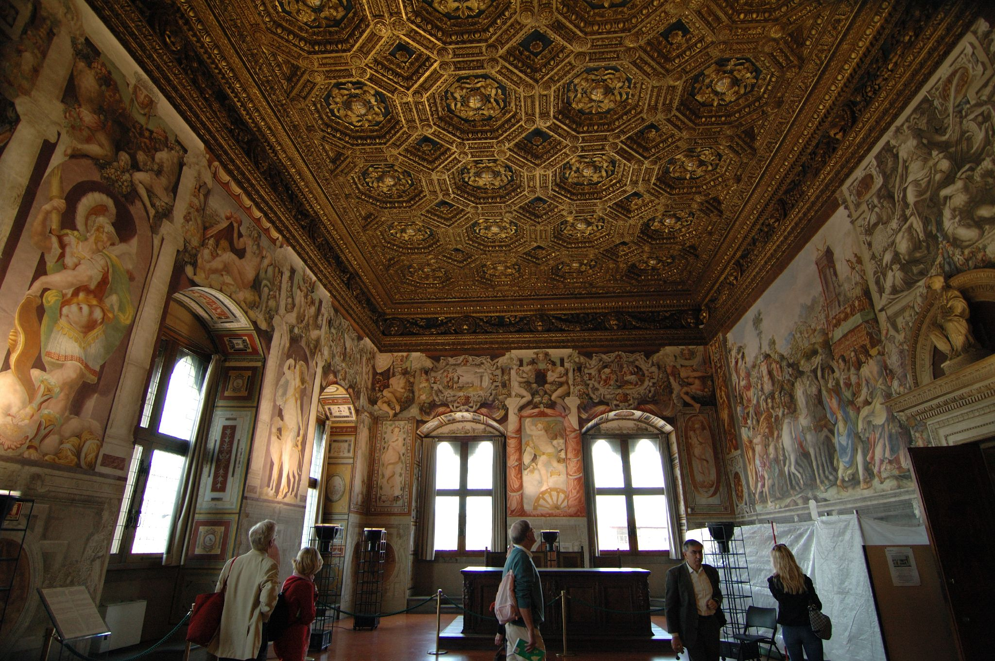 see above